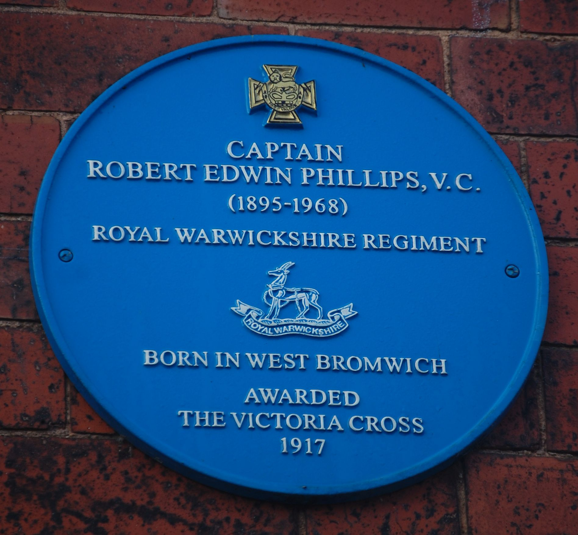 Blue plaque in West Bromwich, England, commemorating Robert Edwin Phillips, VC. The inscription reads (all in upper case): Captain Robert Edwin Phillips, V.C. (1895-1968) Royal Warwickshire Regiment Born in West Bromwich Awarded the Victoria Cross 1917